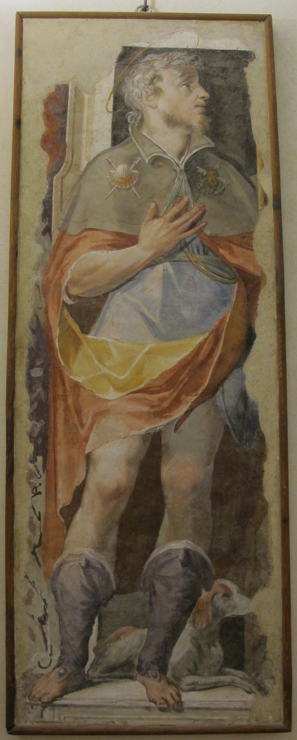 Casa Vasari (Arezzo)